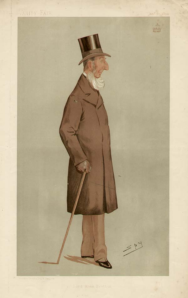 Caricature of John George Dodson, 1st Baron Monk Bretton.